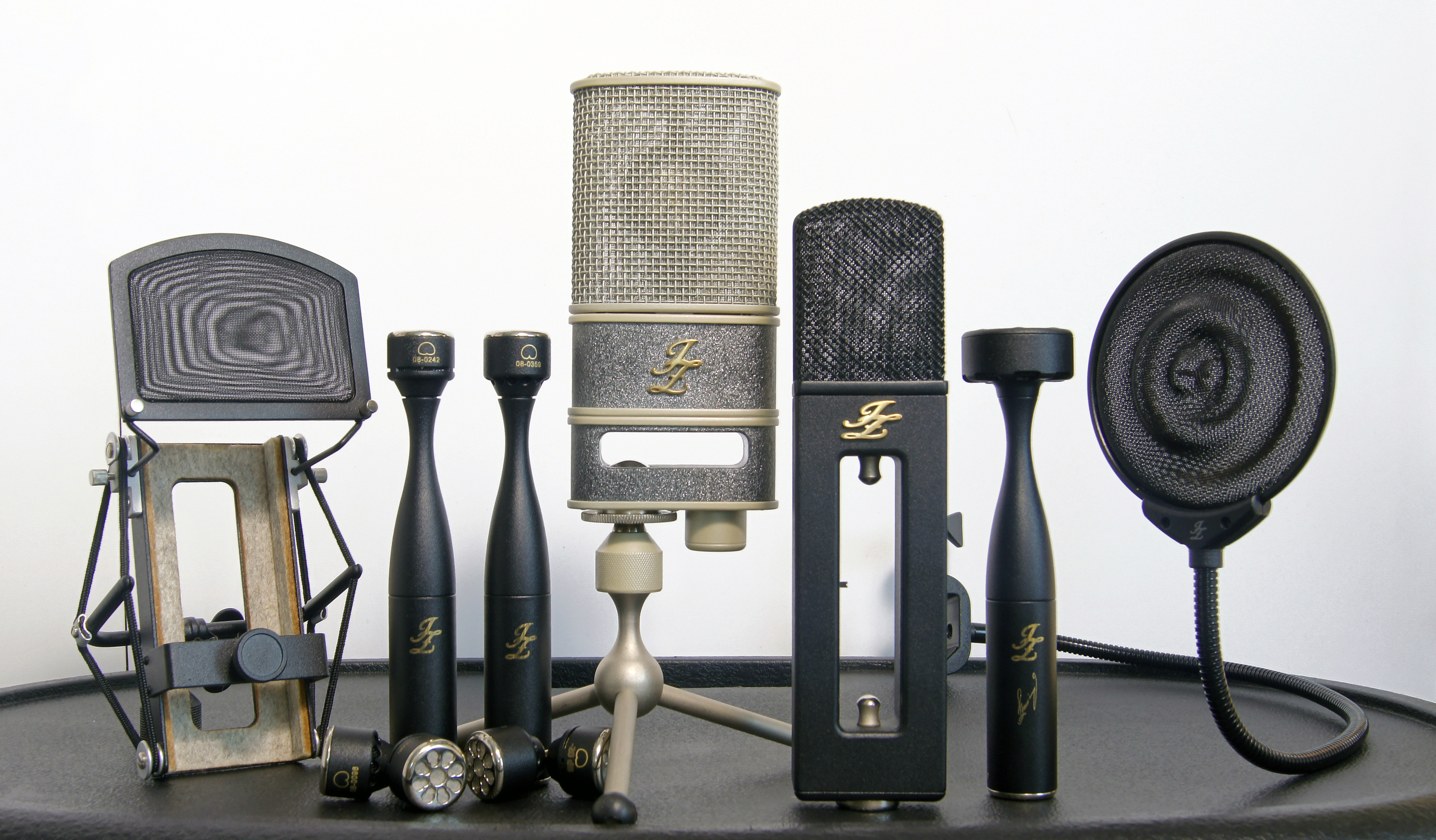 Products of JZ Microphones